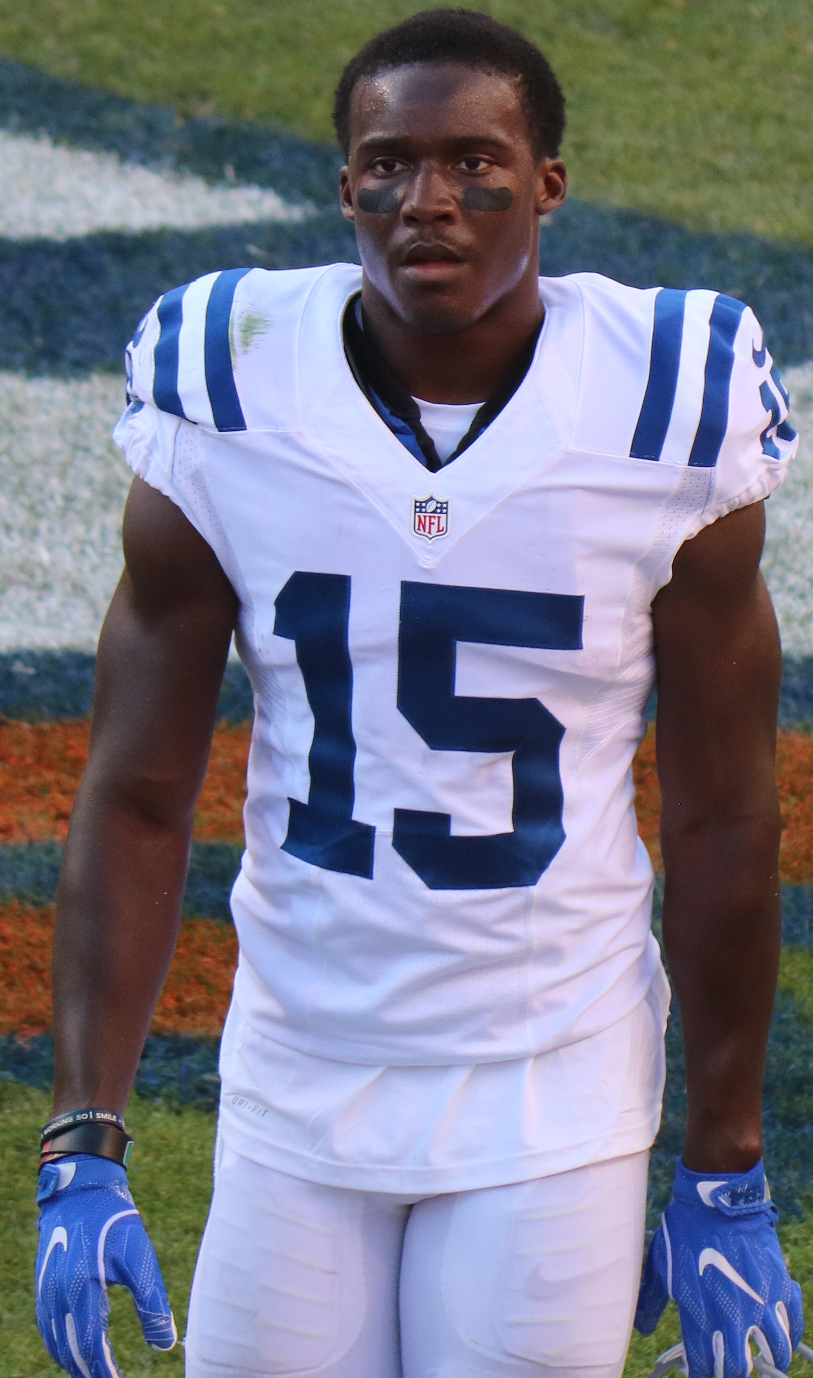 Phillip Dorsett, a player on the National Football League.